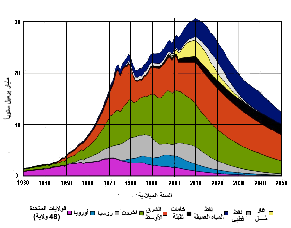 Peak Oil and Gas by geographical region.